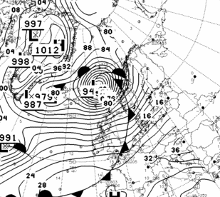 Surface analysis of Cyclone Berit near the Faroe Islands on November 25, 2011.